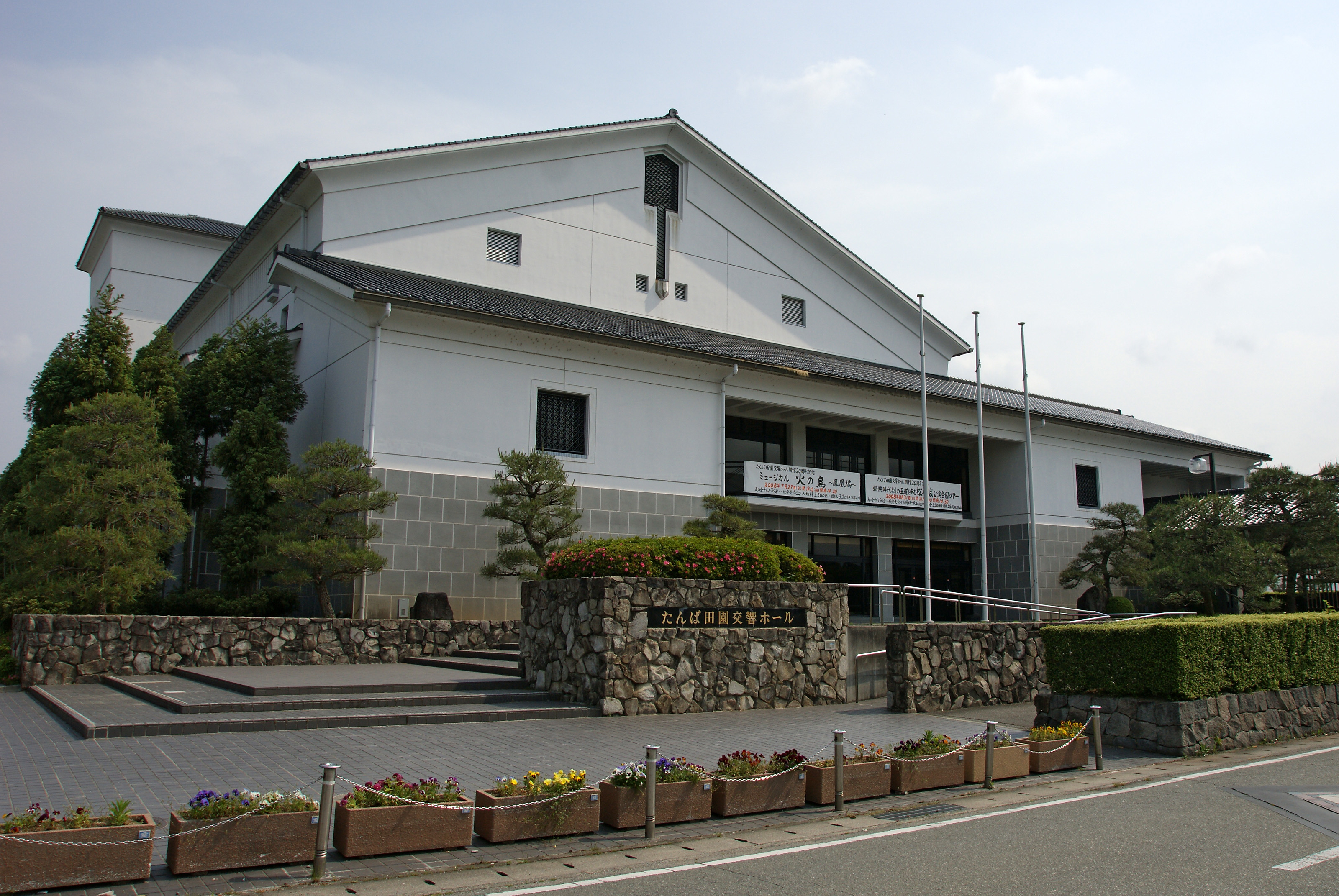 Tanba-Denen Symphony Hall, Sasayama, Hyogo prefecture, Japan